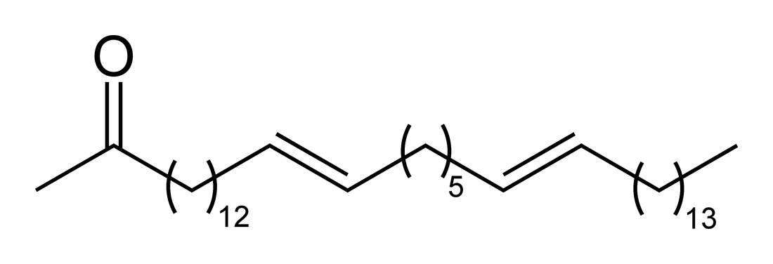 Skeletal formula of the alkenone known as 37:2, (15E,22E)-heptatriaconta-15,22-dien-2-one, C37H70O. Structure from Org. Geochem. (1988) 13, 727-734.